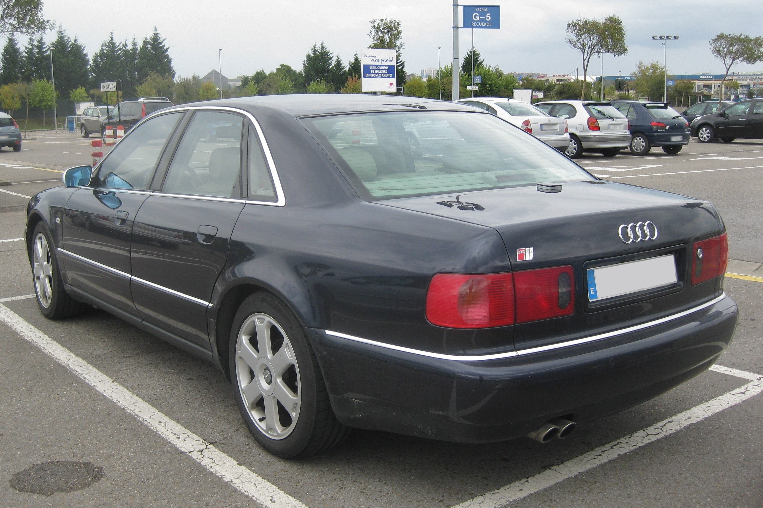 Seen at a shopping centre's car park in Santander (Cantabria).